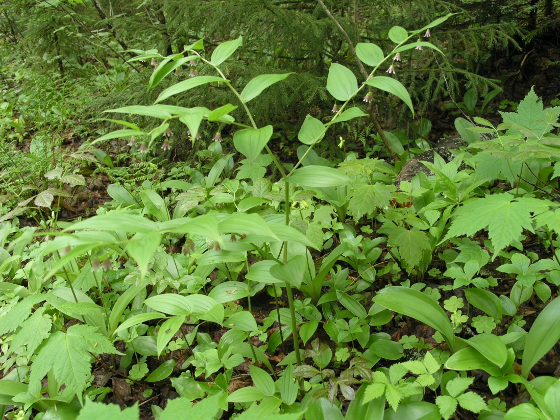 Streptopus lanceolatus in mixed northern forest of Picea rubens (red spruce) and Betula alleghaniensis (yellow birch) in Mount Carleton Provincial Park, New Brunswick, Canada. Also in photograph are Acer spicatum (mountain maple), Cornus canadensis (bunchberry), Clintonia borealis (bead lily) and Oxalis montana (mountain woodsorrel).